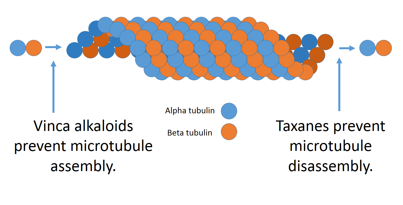 Microtubules are hollow tubular structures found within cells. They are formed from heterodimers alpha- and beta-tubulin. Anti-cancer drugs target these structures by either preventing their assembly or disassembly. This leads to defective mitosis.